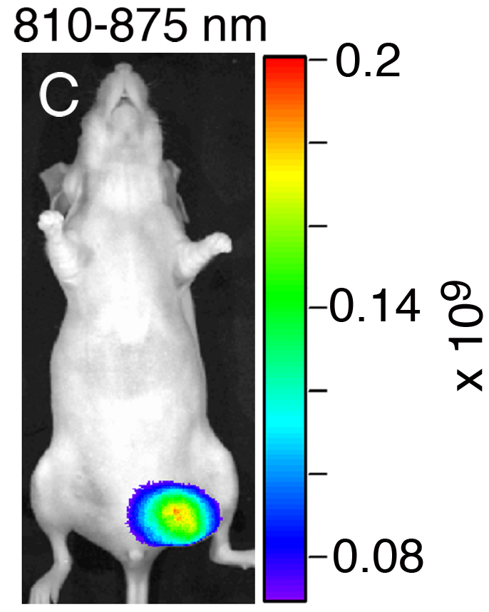 STL-6014 accumulation in the necrotic area of large orthotopic MDA-MB-231-RFP tumors. CD-1 nude, female mice (n 3) bearing an orthotopically grafted, large MDA-MB-231-RFP tumor were intravenously injected with 15 mg/kg STL-6014. (NIR) fluorescence images for detection of STL-6014 distribution.